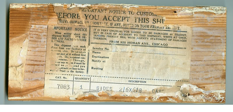 An image of a shipping label from a Sears Catalog House